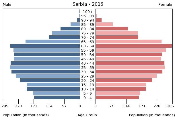 The population pyramid of Serbia illustrates the age and sex structure of population and may provide insights about political and social stability, as well as economic development. The population is distributed along the horizontal axis, with males shown on the left and females on the right. The male and female populations are broken down into 5-year age groups represented as horizontal bars along the vertical axis, with the youngest age groups at the bottom and the oldest at the top. The shape of the population pyramid gradually evolves over time based on fertility, mortality, and international migration trends.